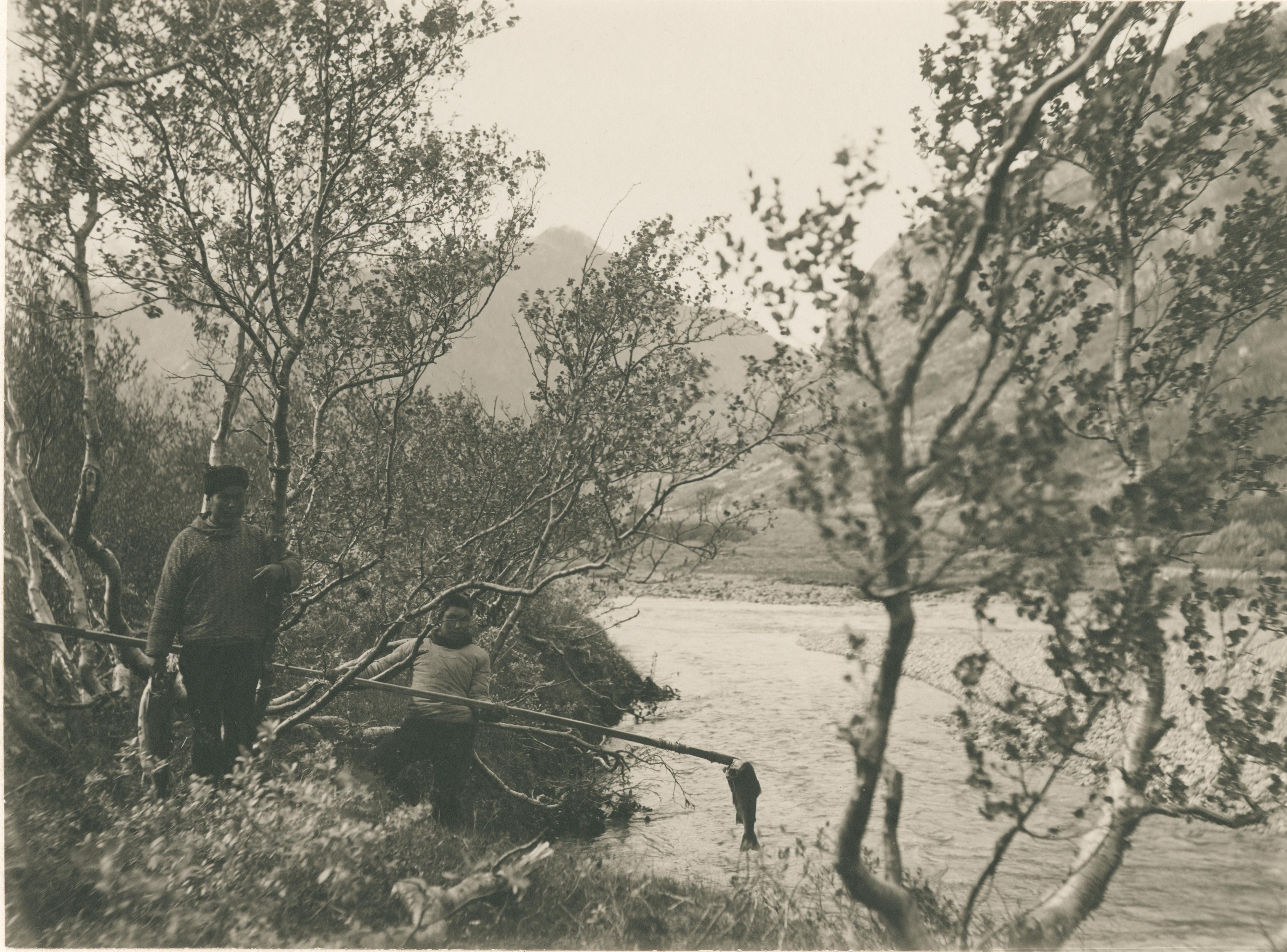 Salmon-trout fishing in the Qinngua valley.